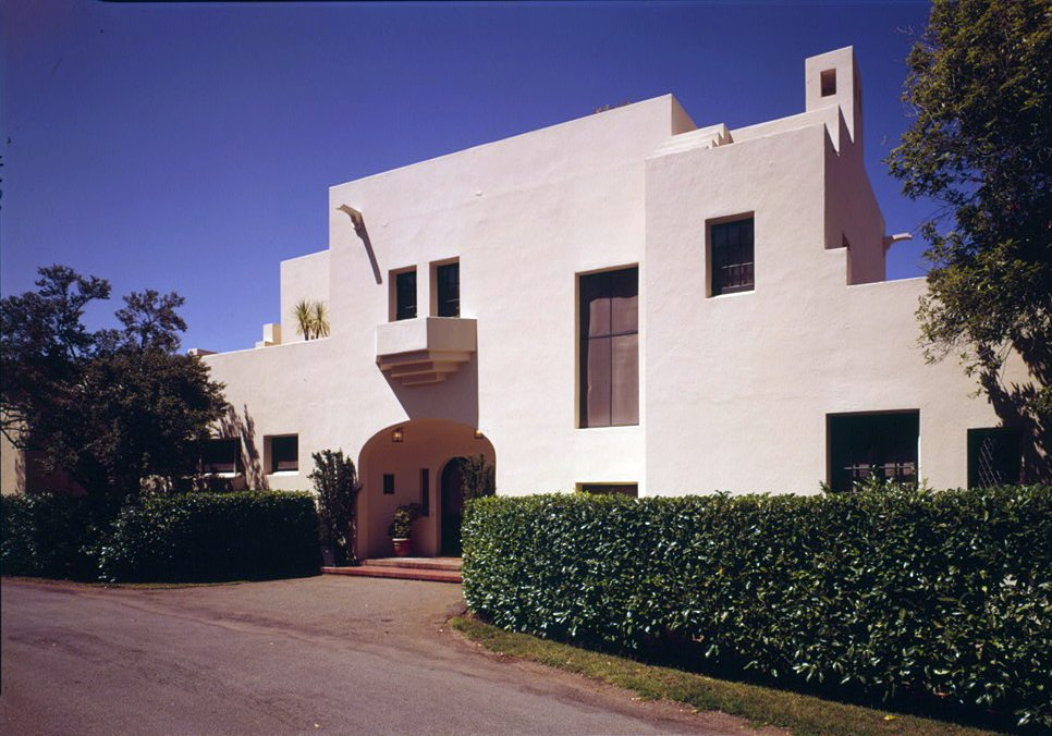 View of the Lou Henry and Herbert Hoover House from northwest — Stanford University campus, Palo Alto, California. A California Historical Landmark, and on the National Register of Historic Places in Santa Clara County. Image (1975): HABS—Historic American Buildings Survey of California.